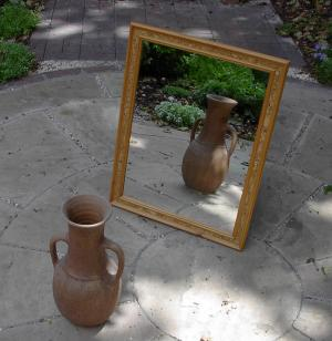 A wall mirror, reflecting a vase.